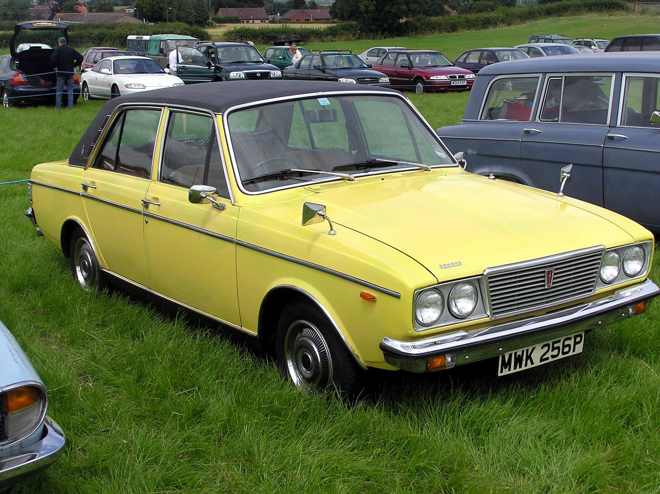 1976 Humber Sceptre at Coalpit Heath car show, near Bristol, England. Taken by Adrian Pingstone in July 2004 and released to the public domain.